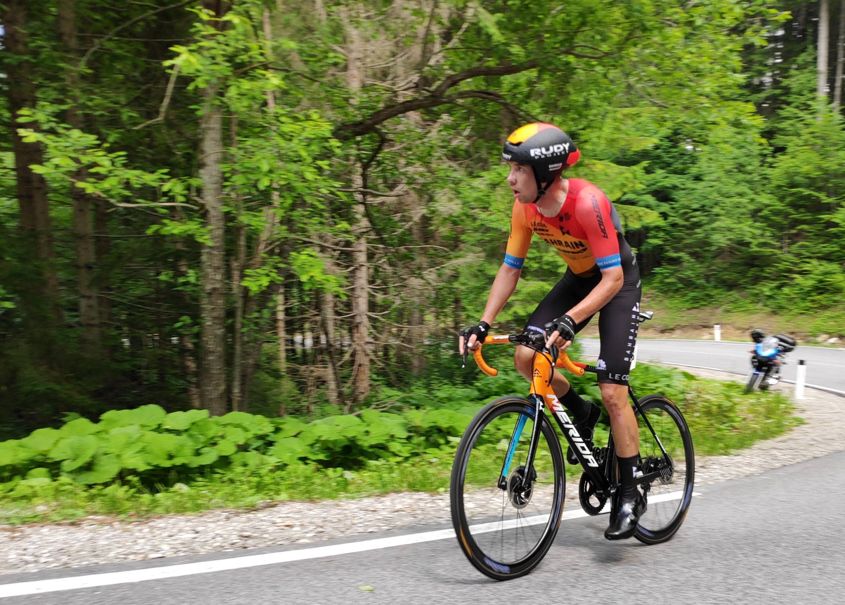 Domen Novak (2020 Slovenian National Time Trial) in dress of Team Bahrain McLaren